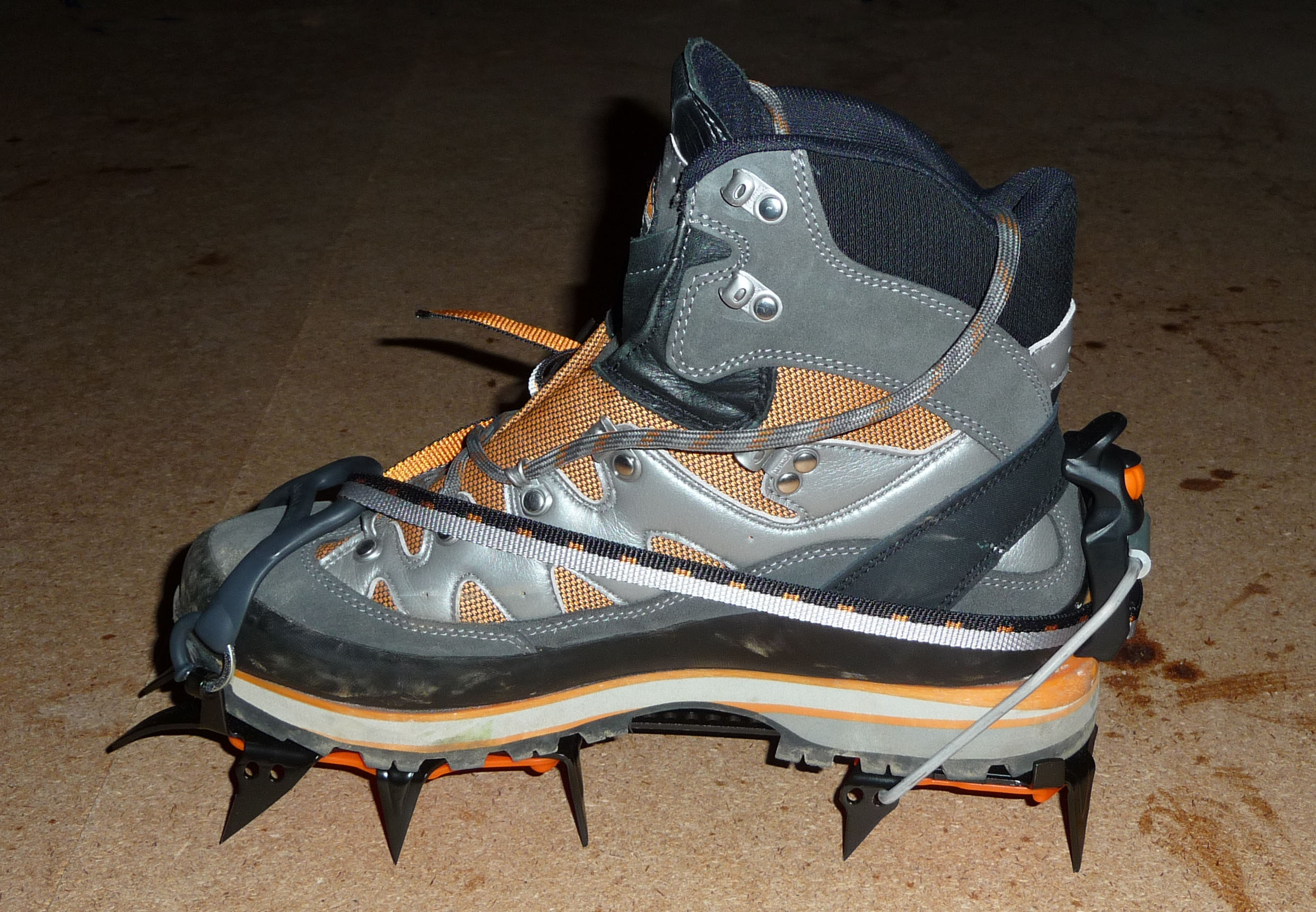 Mountain boot with hybrid crampons mounted